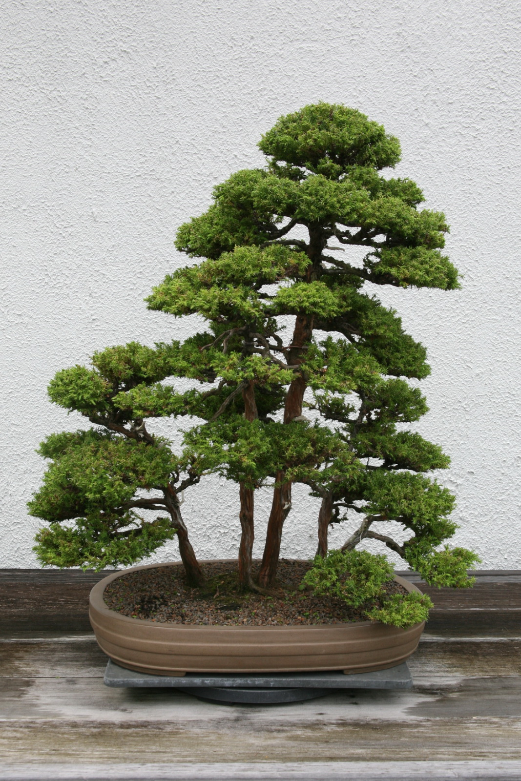 In training since 1905